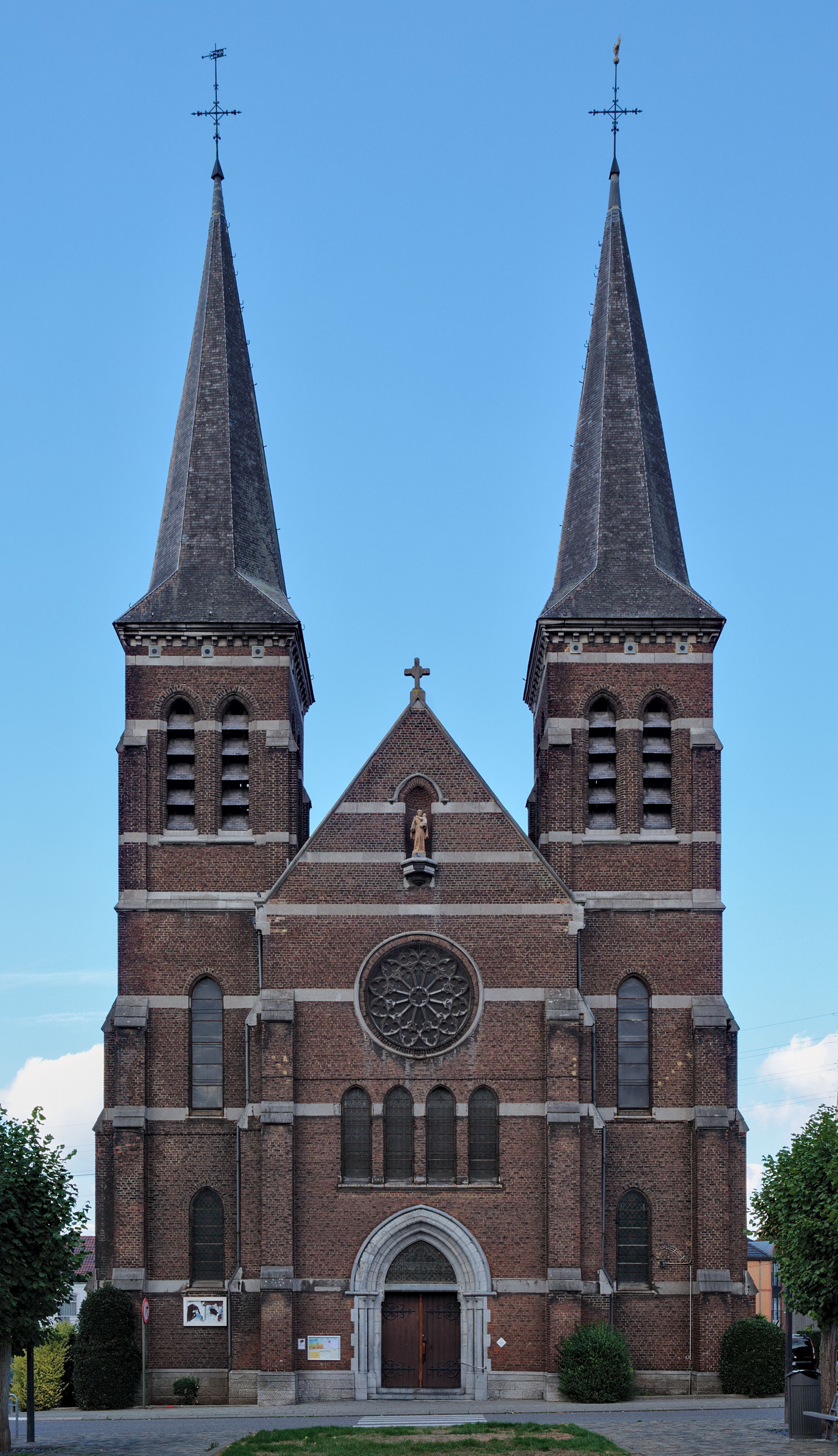 Saint Anthony of Padua church in La Louvière (Belgium)